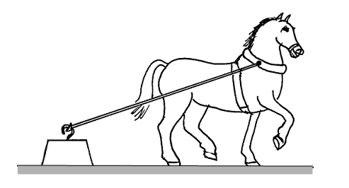 Cavalo a arrastar um bloco de 350 kg.